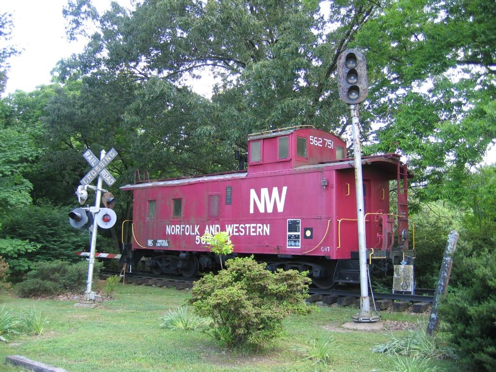 Caboose exhibit at Oaklawn Garden botanical park and museum in Germantown, Tennessee.